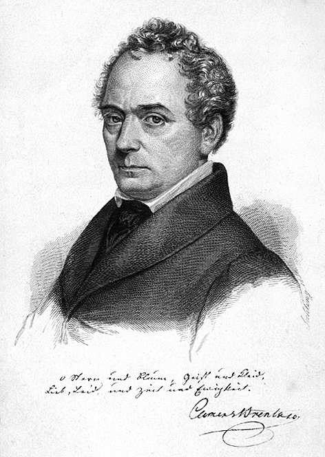 The portrait of Clemens Brentano engraved by Lazarus Sichling, from the book: Clemens Brentano’s Gesammelte Schriften, hrsg. von Christian Brentano, Bd. 1: Geistliche Lieder, Frankfurt (Main), 1852.